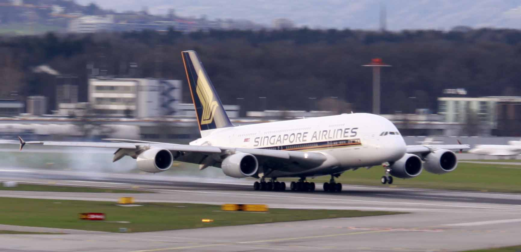 Singapore Airlines A380-800 (9V-SKD) landing in Zuerich-Kloten.